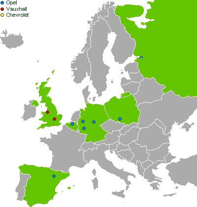 Automobile assembly plants of GM Europe in 2009.